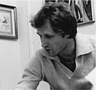 Marshall Rogers (deceased) in 1979.